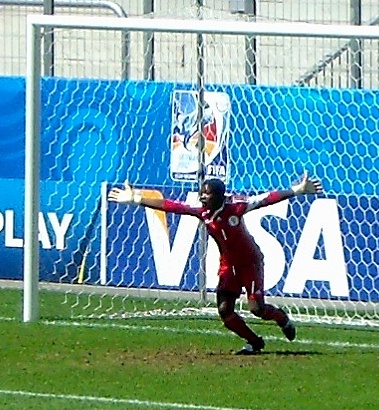 USA-Nigeria at 2010 FIFA U-20 Women's World Cup in Impuls Arena as “FIFA Women's World Cup Stadium Augsburg”:Nigerian goalkeeper Alaba Jonathan (1).